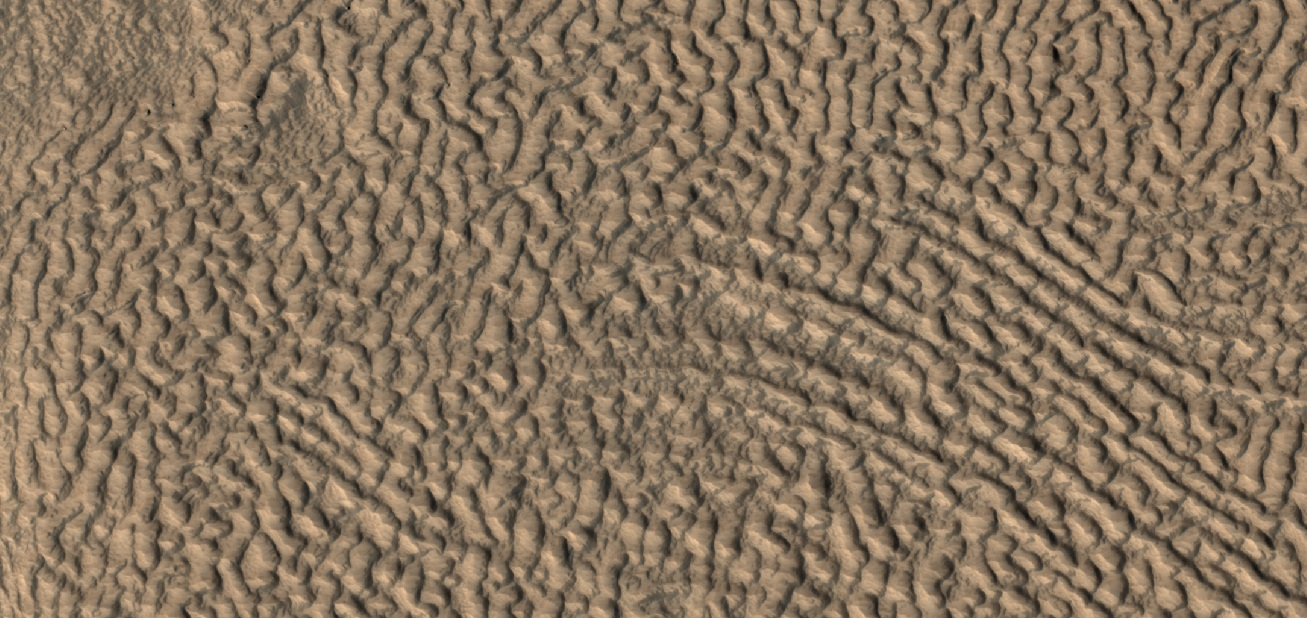 Brain terrain in Diacria quadrangle, as seen by HiRISE under HiWish program